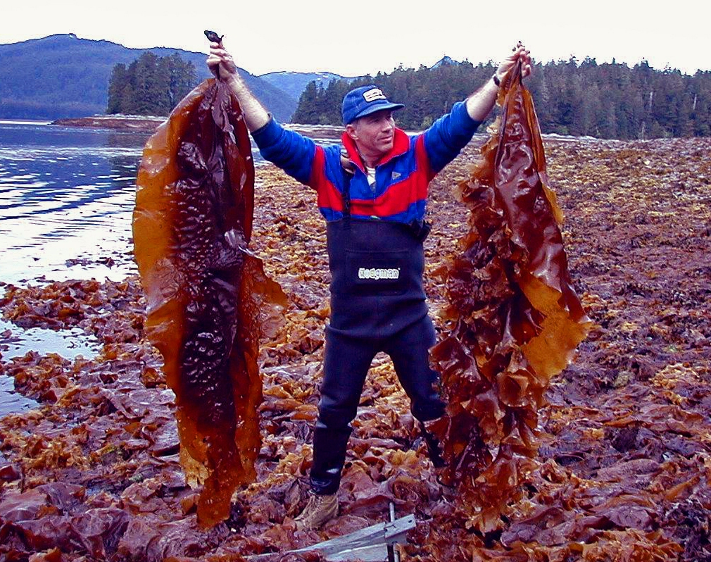 Researcher Mike Murphy holding Saccharina latissima sugar kelp algae.